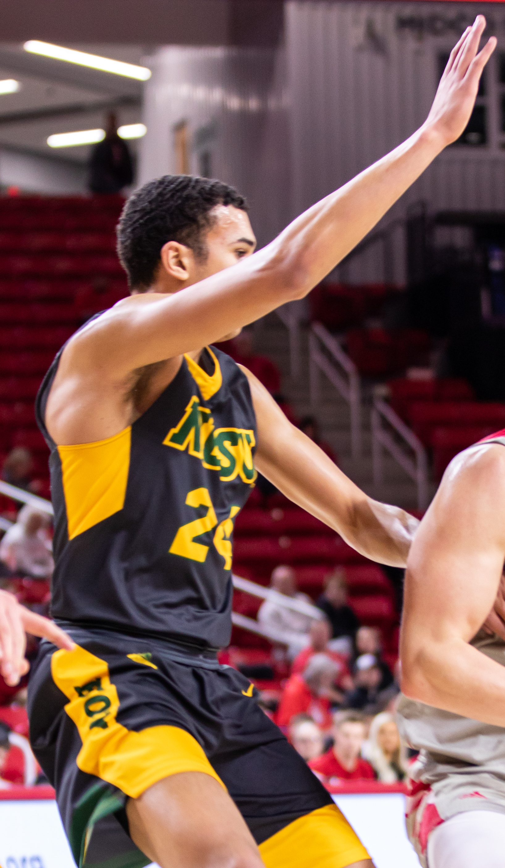 photo by Peyton Beyers